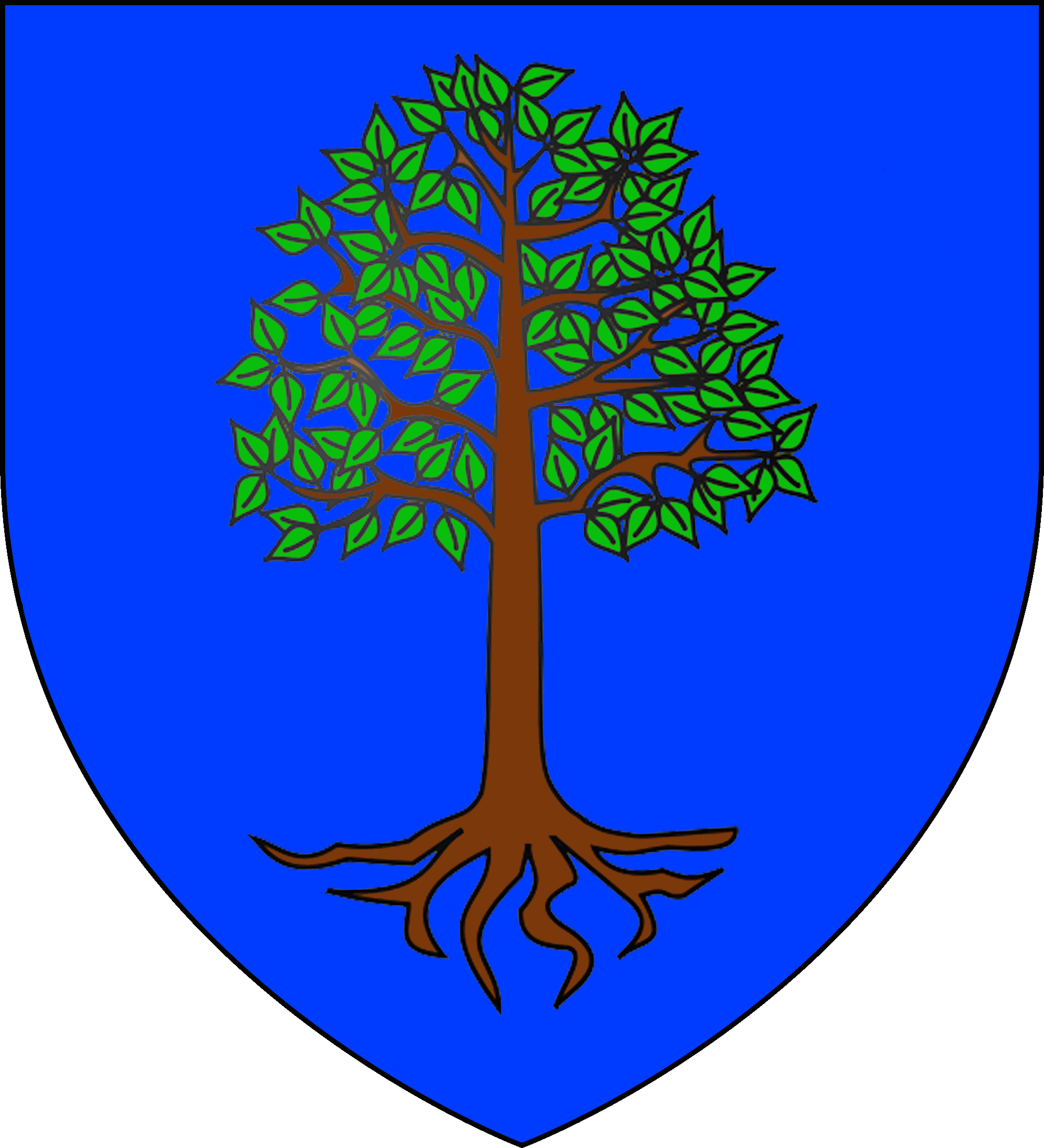 Escudo de armas de la Casa Prpignano, príncipes del Buonriposo. (Stemma dei Perpignano)